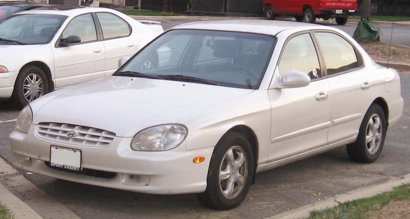 1999-2000 Hyundai Sonata photographed in College Park, Maryland, USA.